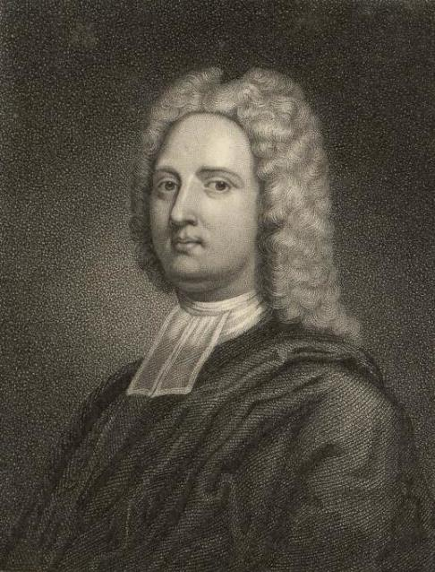 A portrait from the Welsh Portrait Collection at the National Library of Wales. Depicted person: John Evans – Welsh divine, born 1680